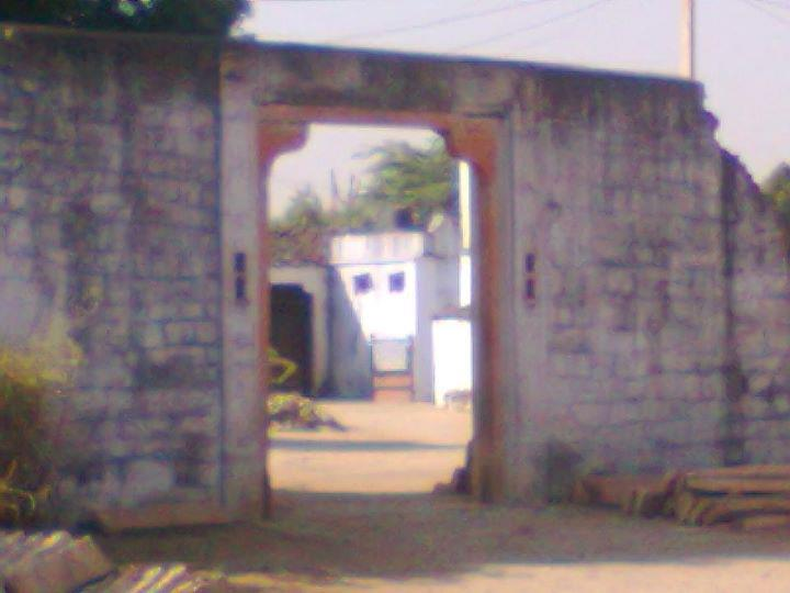 photo of gate